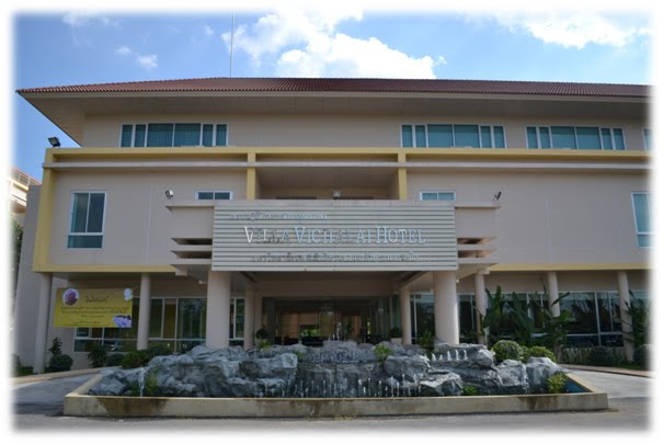 อาคารปฏิบัติการการจัดการอุตสาหกรรม โรงแรมวิลลาวิชาลัยมหาวิทยาลัยพระจอมเกล้าพระนครเหนือ วิทยาเขตปราจีนบุรี